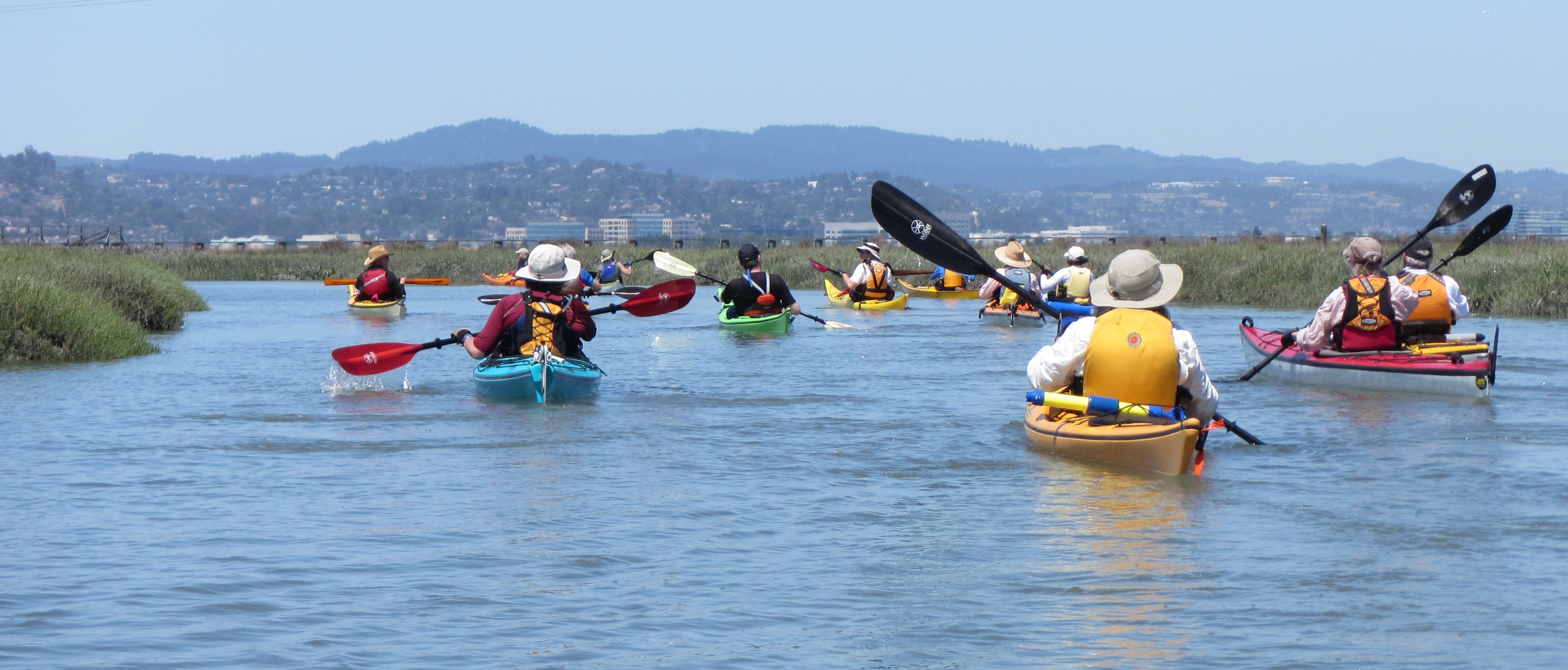 Group of kayakers paddling in San Francisco Bay from Redwood City. San Francisco Bay Area Water Trail